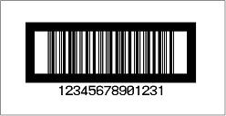 Sample view of ITF